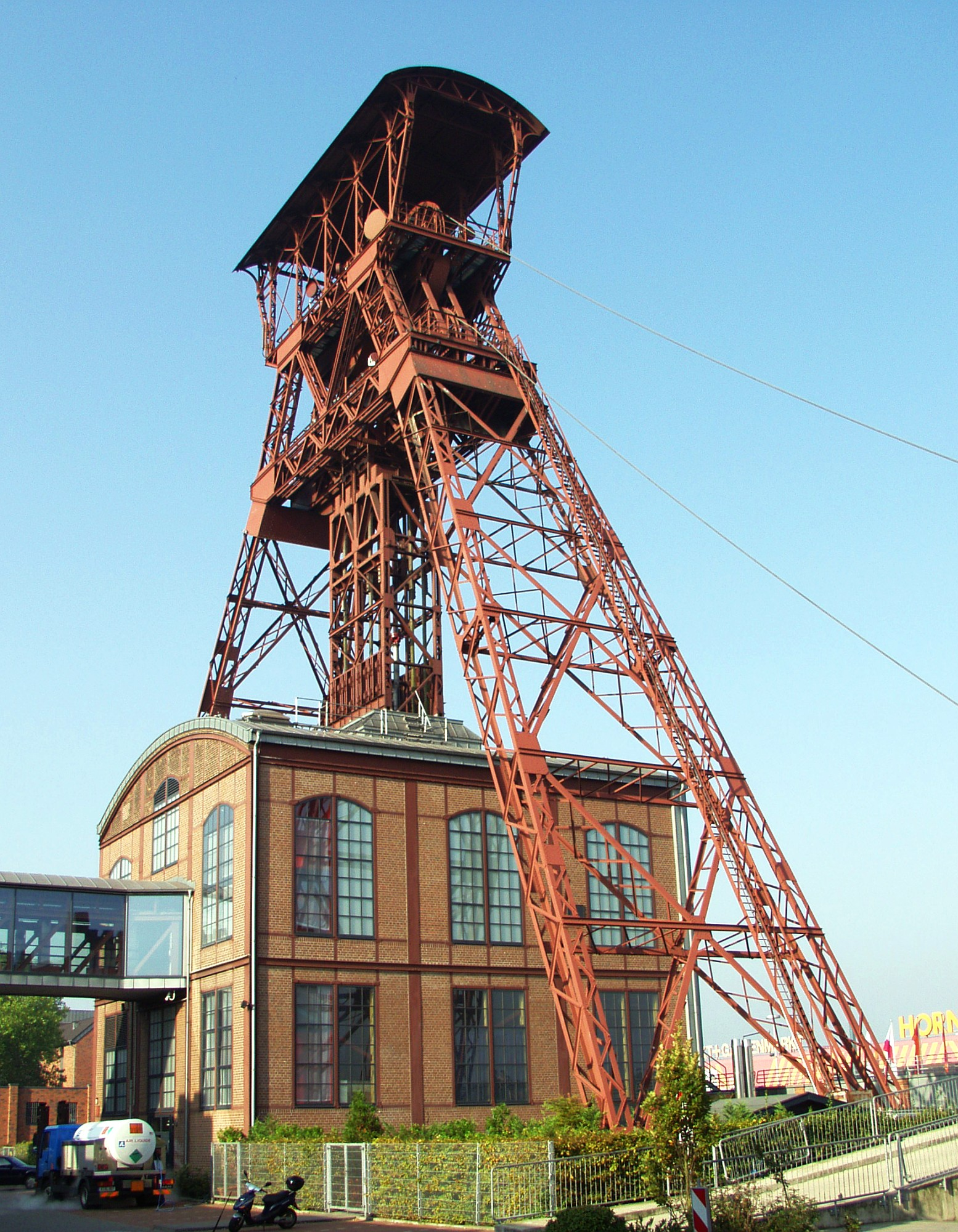 Winding tower of coal mine "Rheinpreußen", mine shaft no. 4 in Moers, Germany